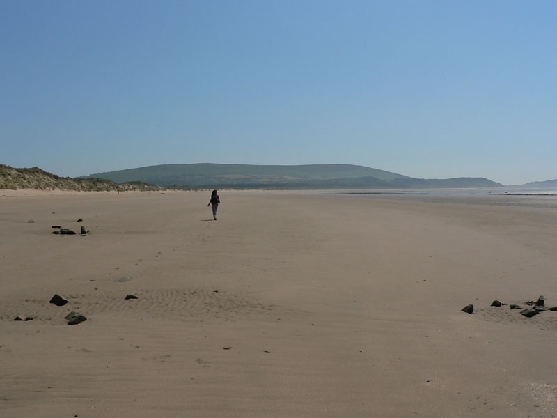 Whiteford Sands, Gower, Wales, UK